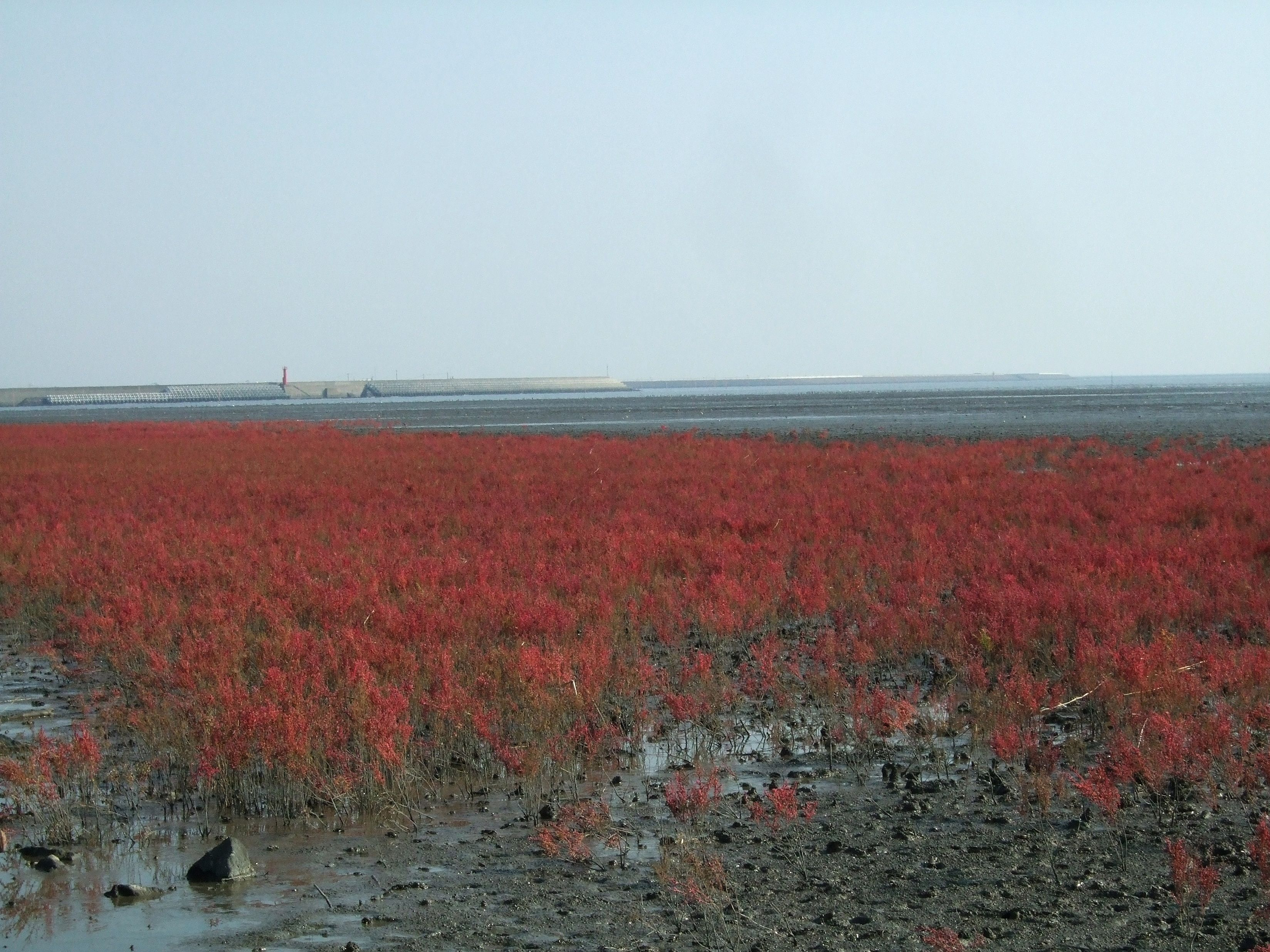 Suaeda japonica grown on the mudflat along the Ariake Sea. At Higata-Yoka Park, Higashiyokacho, Saga City, Saga, Japan.